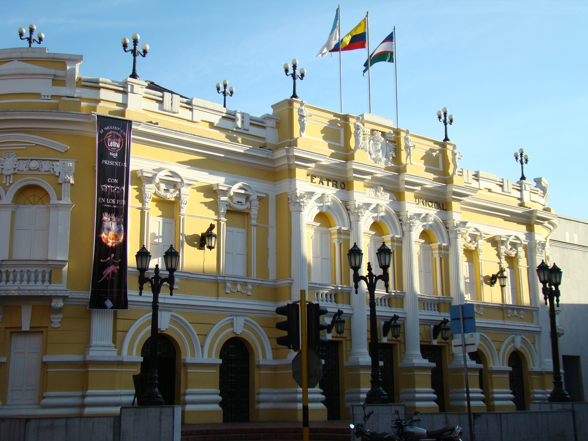 Teatro Municipal, Cali.